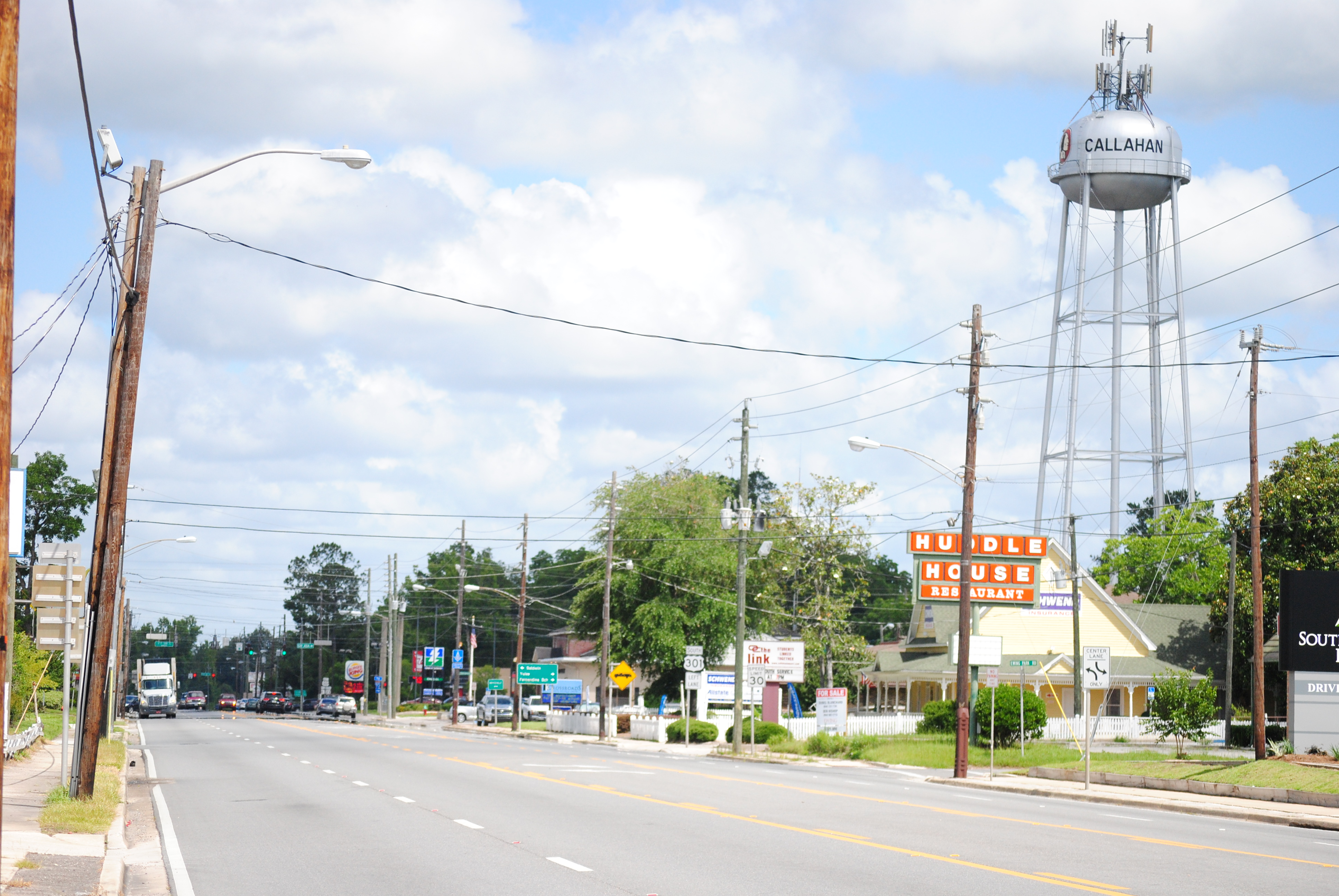 Callahan, FL